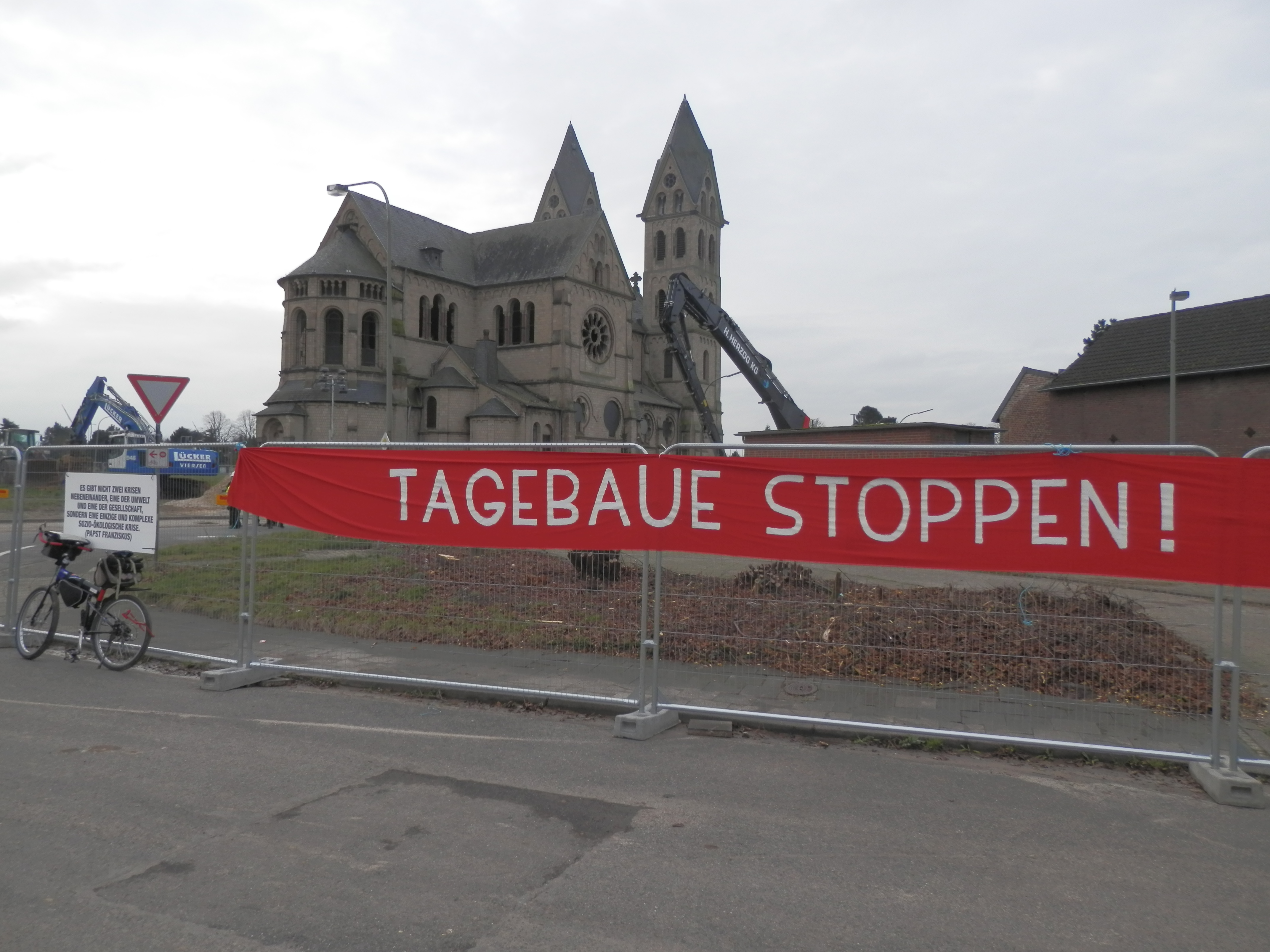 Immerath, NRW, Germany